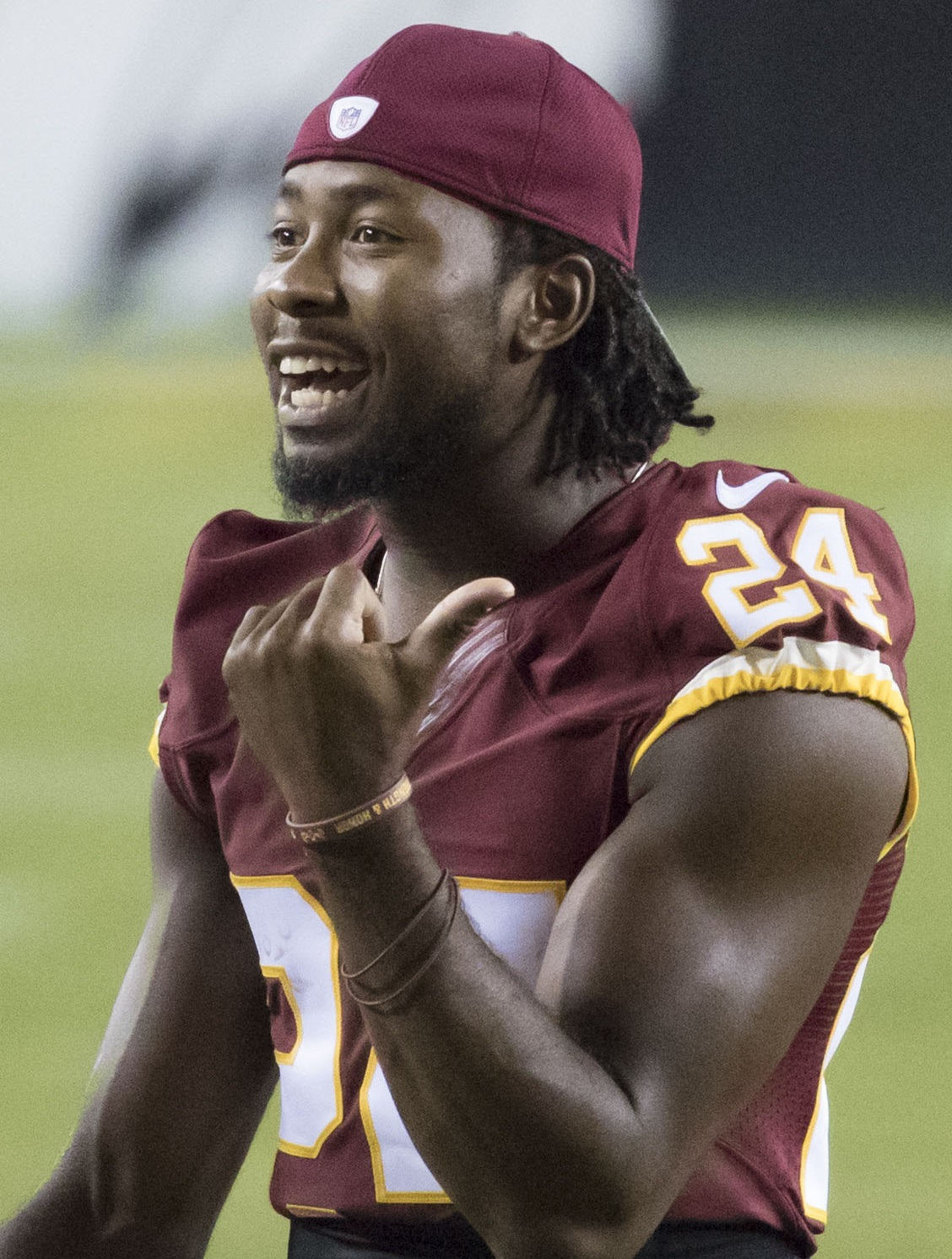 Jets at Redskins 8/19/16